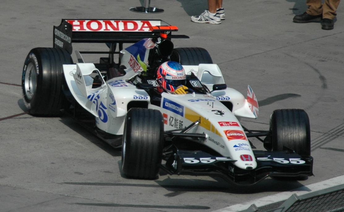 Jenson Button driving for Honda F1 at the 2005 Chinese Grand Prix.